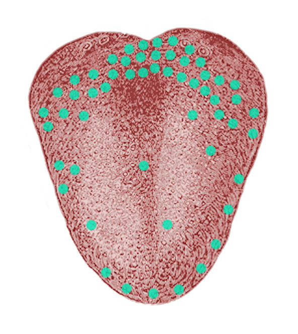 Human tongue, taste buds for bitter are marked